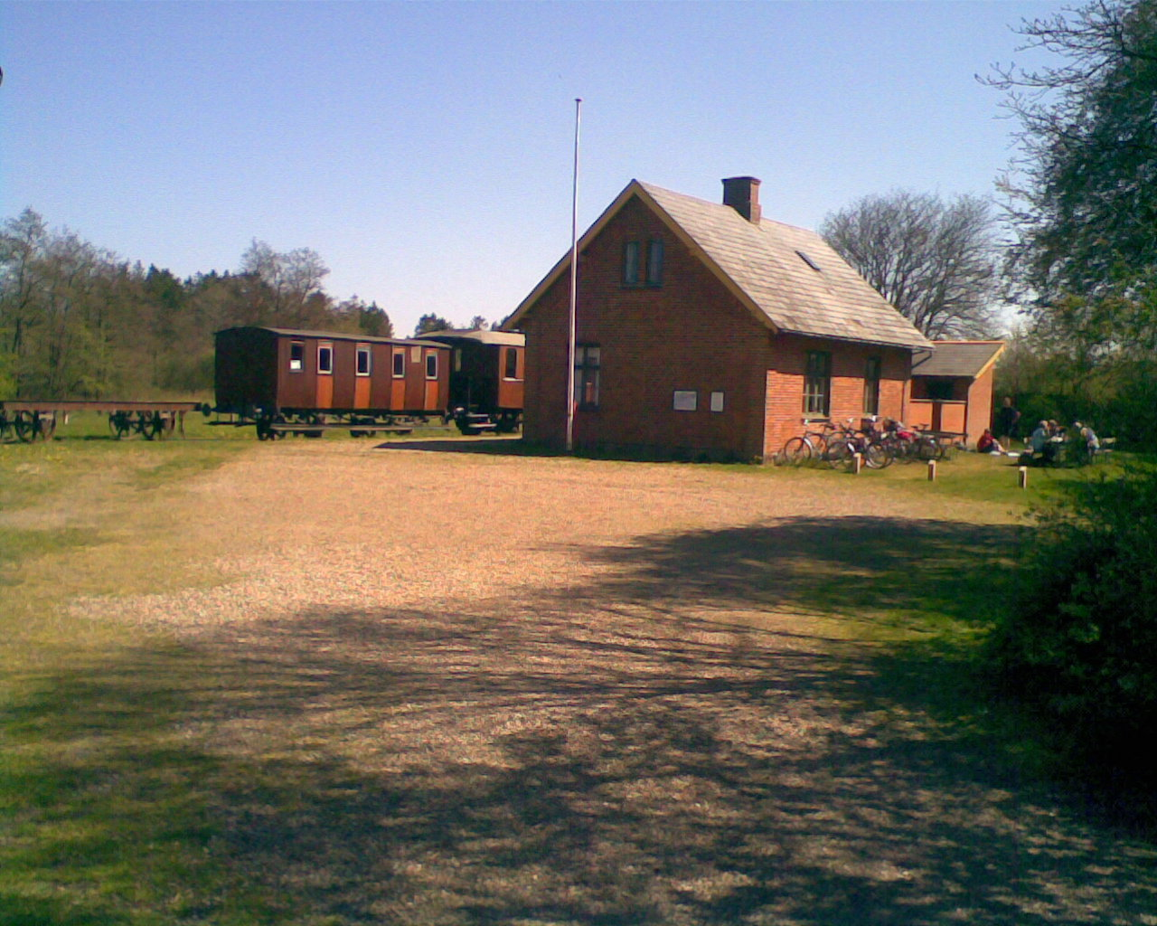 Bindeballe Station, Denmark